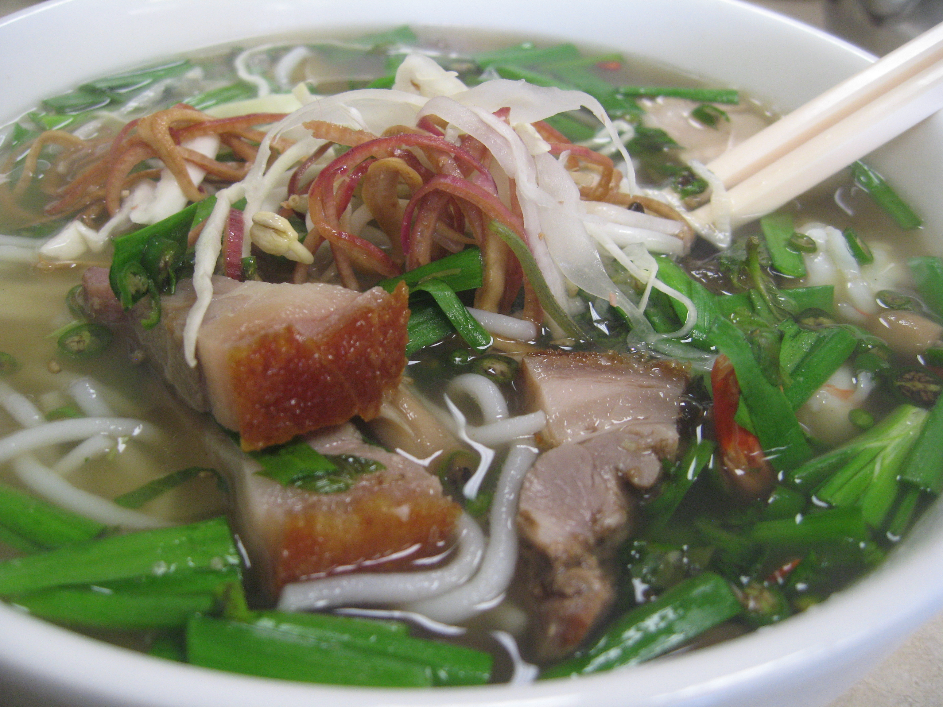 This is a great variation of bun bo Hue that includes roast pork and shrimp. @ Ngoc Han Bun Bo Hue